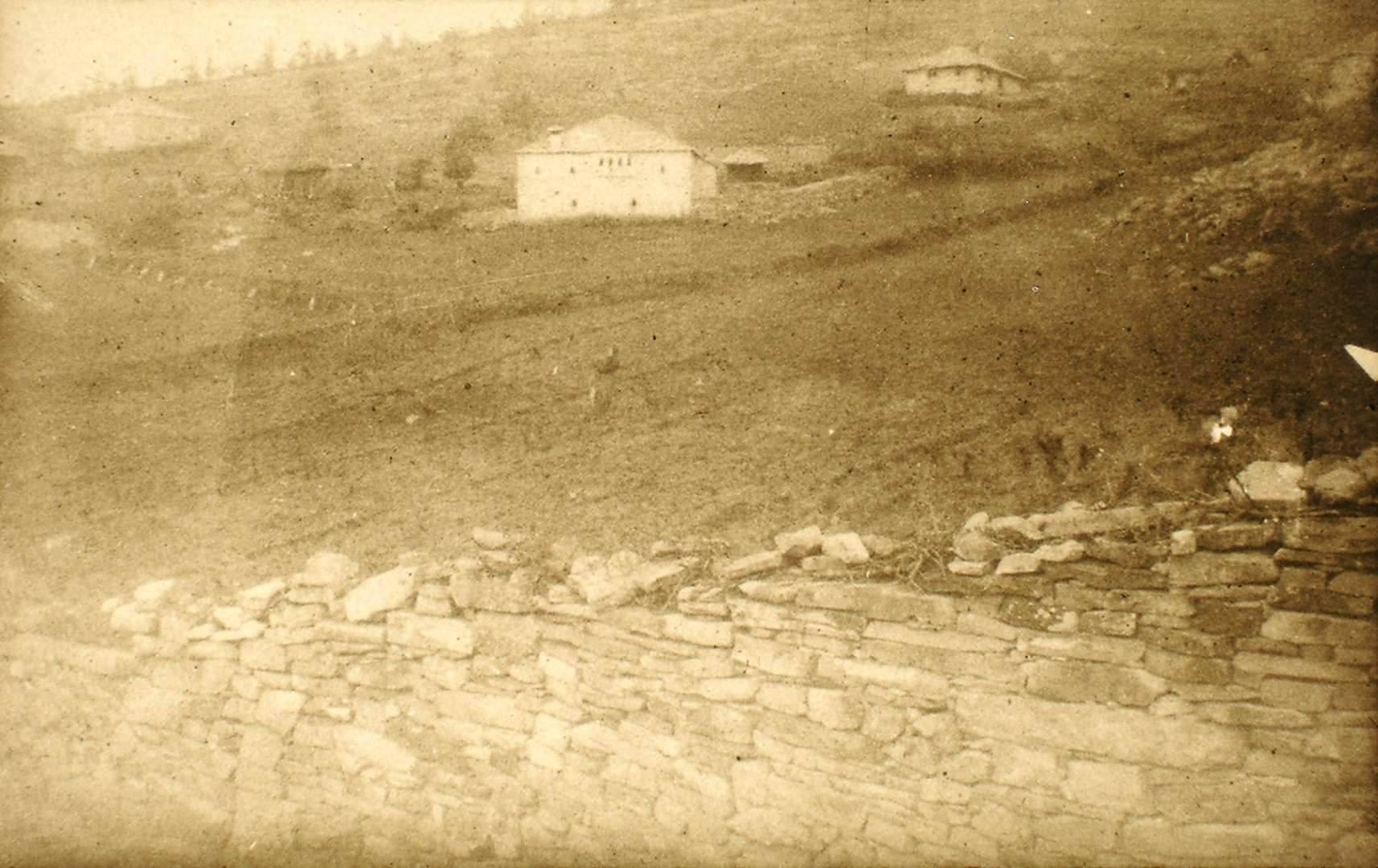 262 Kosova. Zym on a mountain slope of Mount Pashtrik in the vicinity of Prizren (between Prizren and Gjakova), 1905